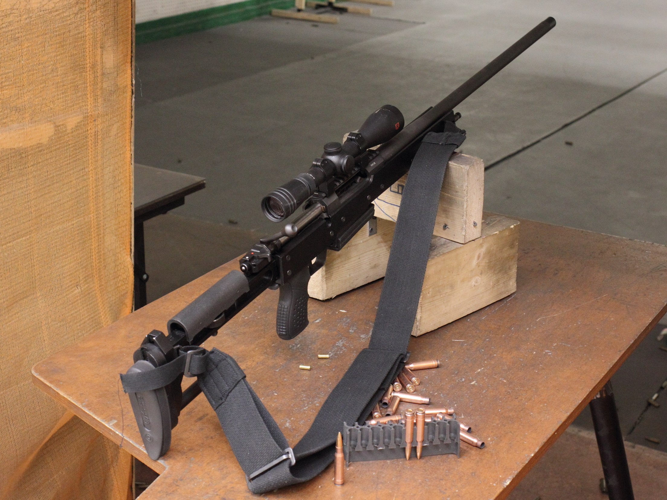 Zastava LK M07 AS Match rifle in .308 Winchester